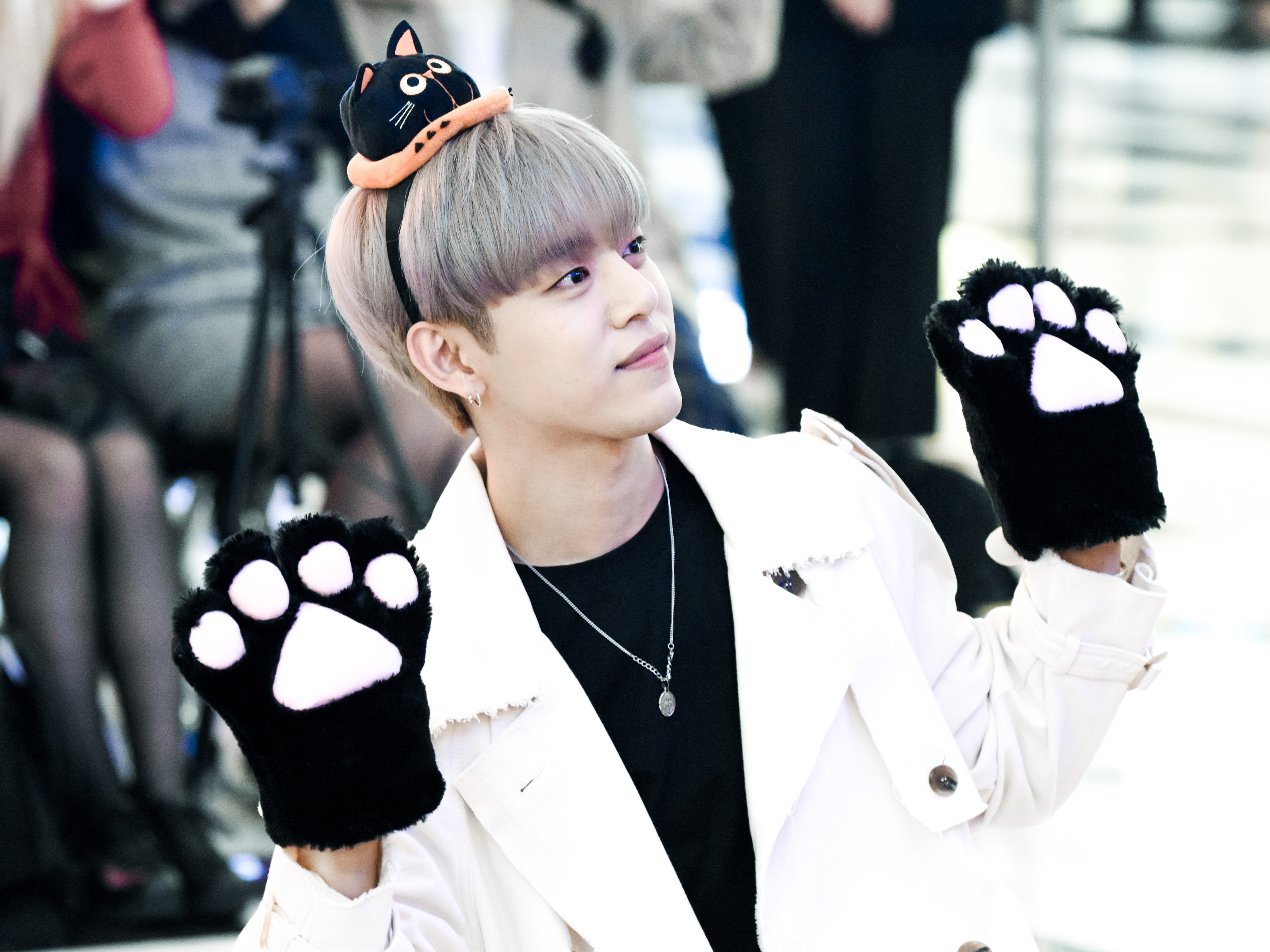 Jung Dae-hyun at an album signing event at IFC Mall in Yeouido on October 20, 2019.